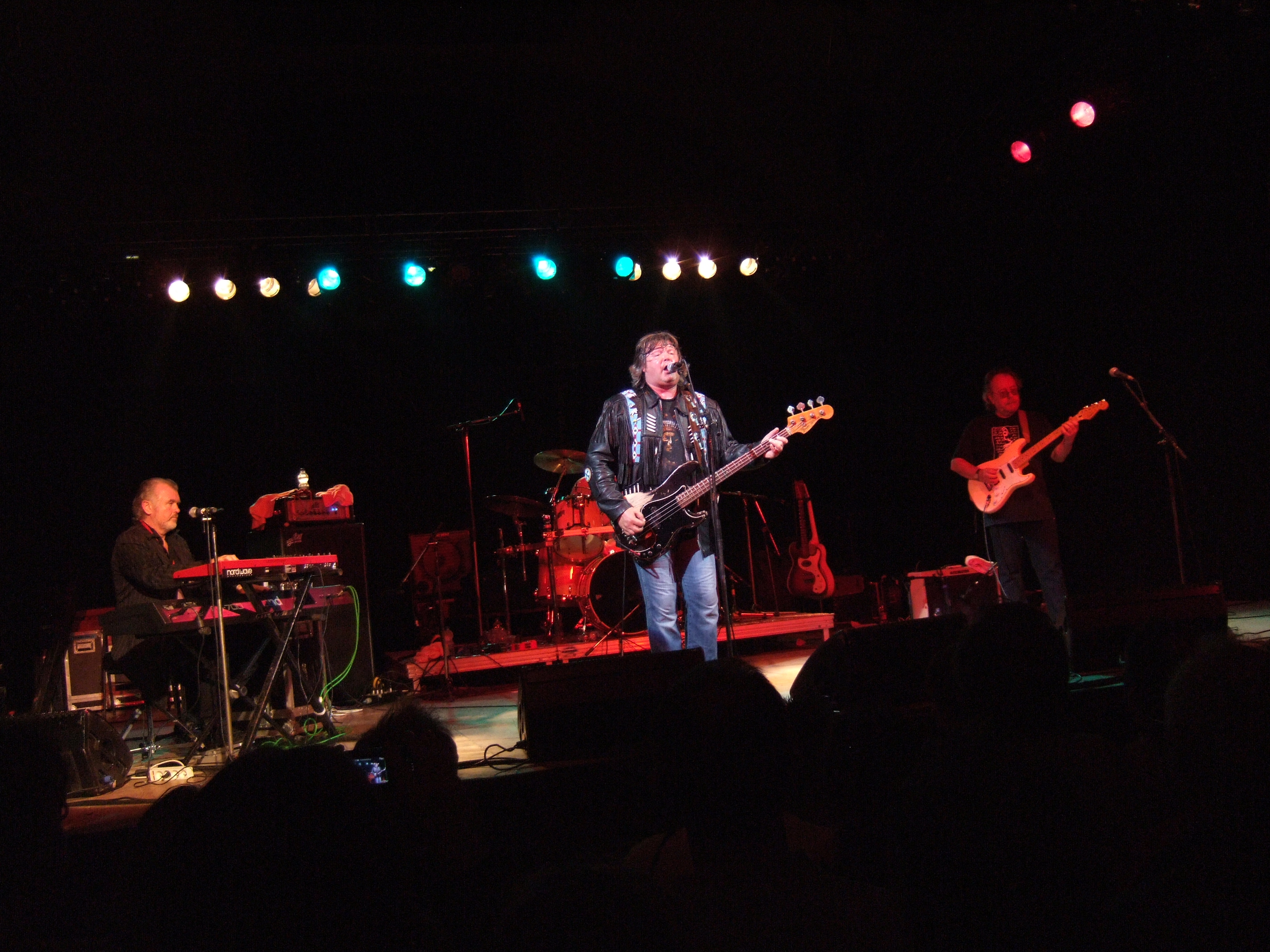 The Animals Live